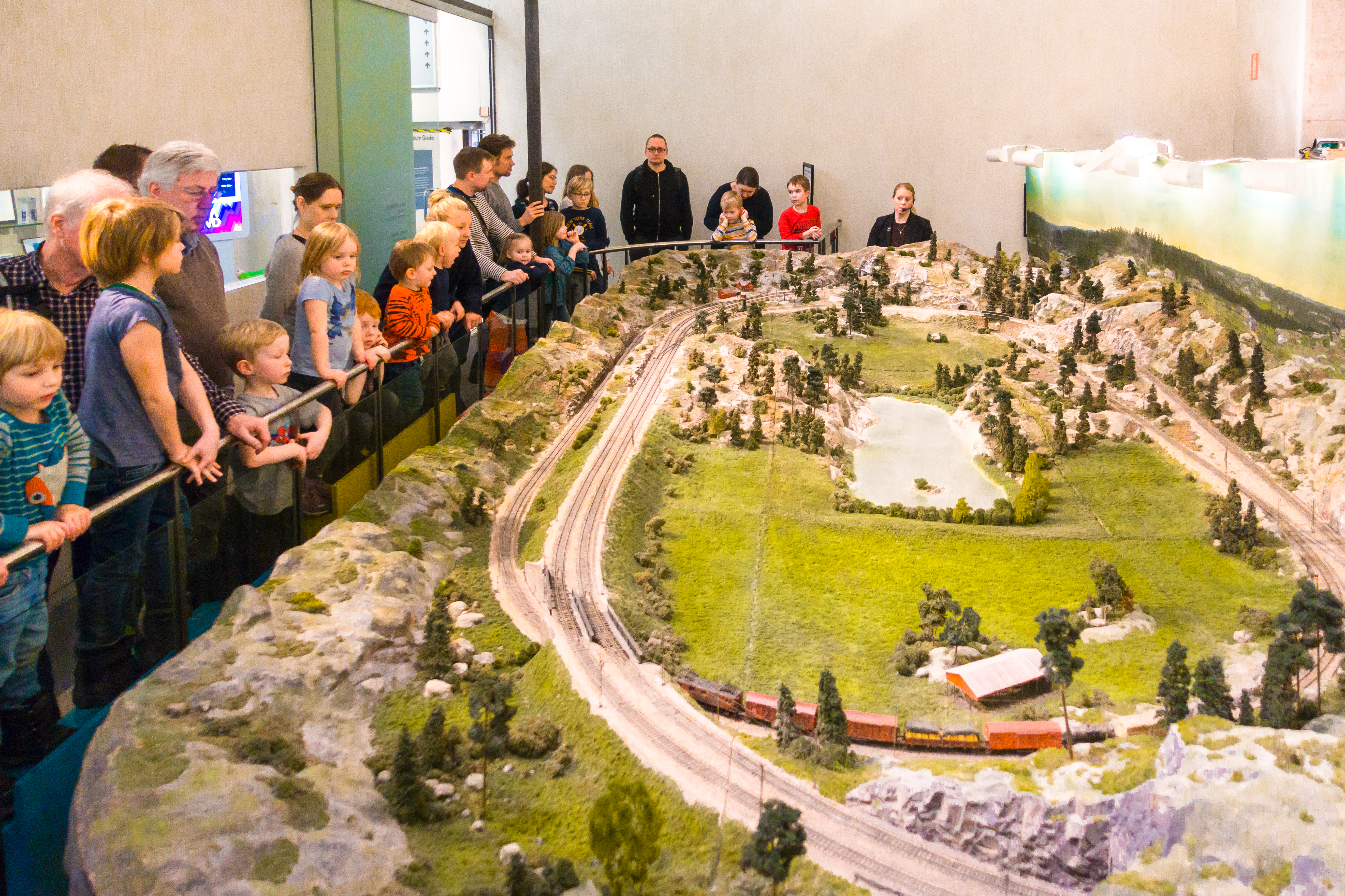 The Technical Museum's model railway in February 2017.